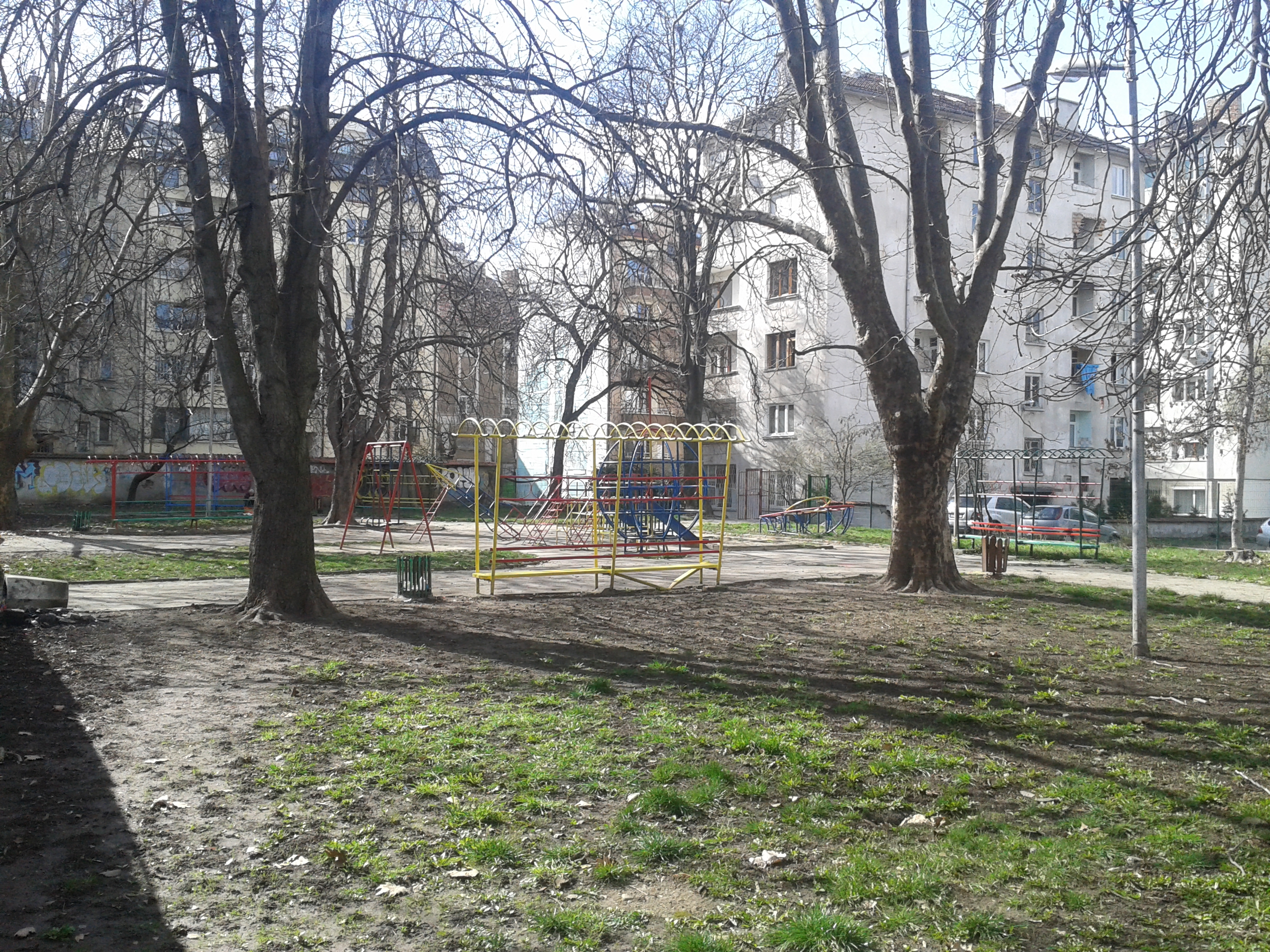 Debar Garden in Sofia